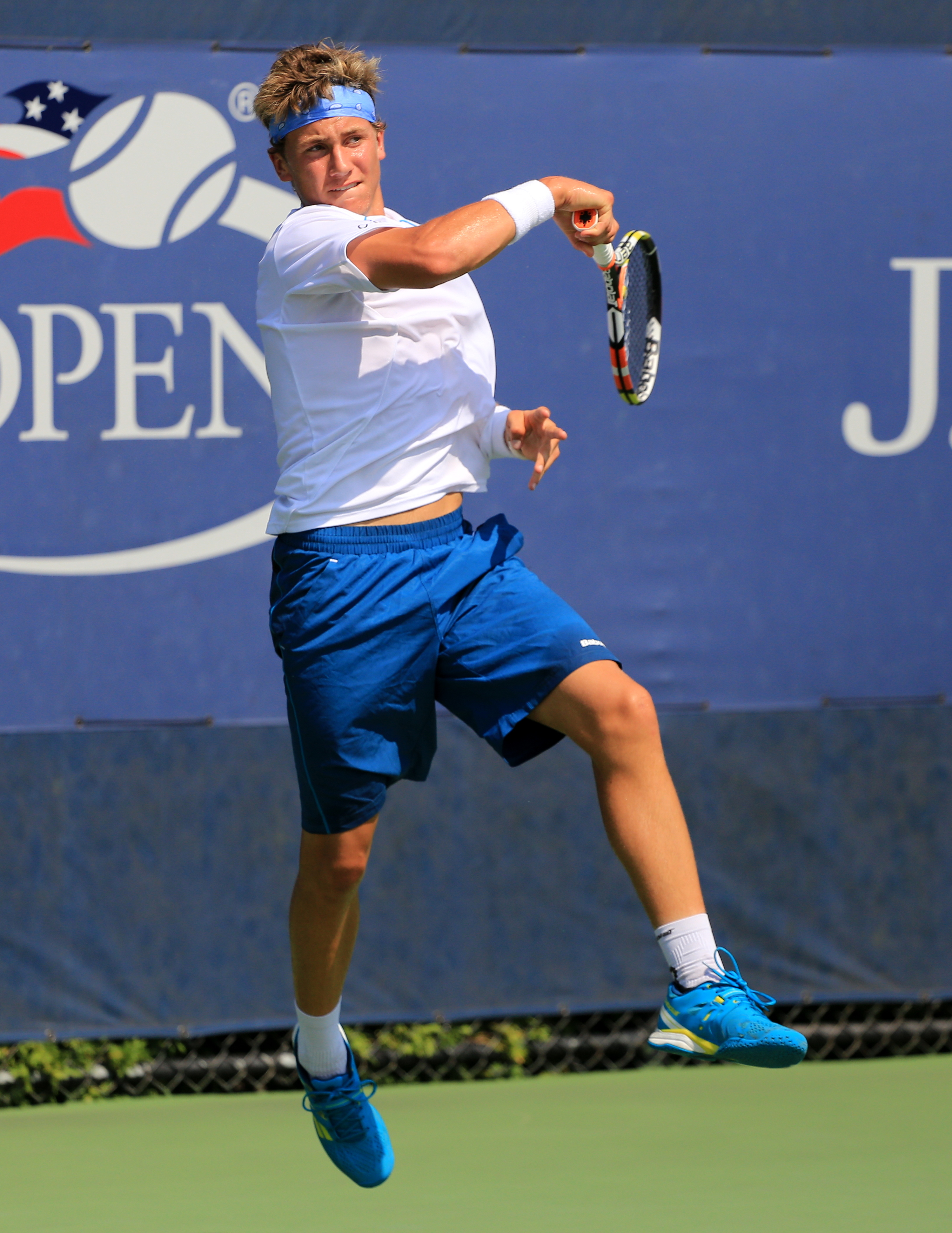 Casper Ruud at the 2015 US Junior Open